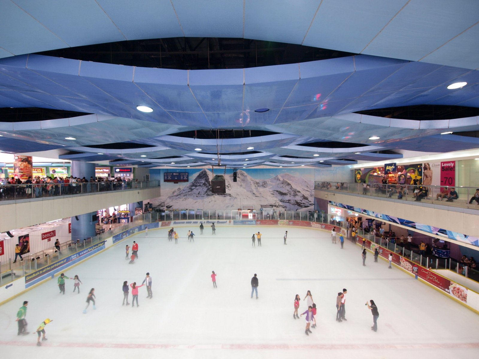 The old ice rink at the Mall of Asia. No longer operational and has been replaced by a newer ice rink.